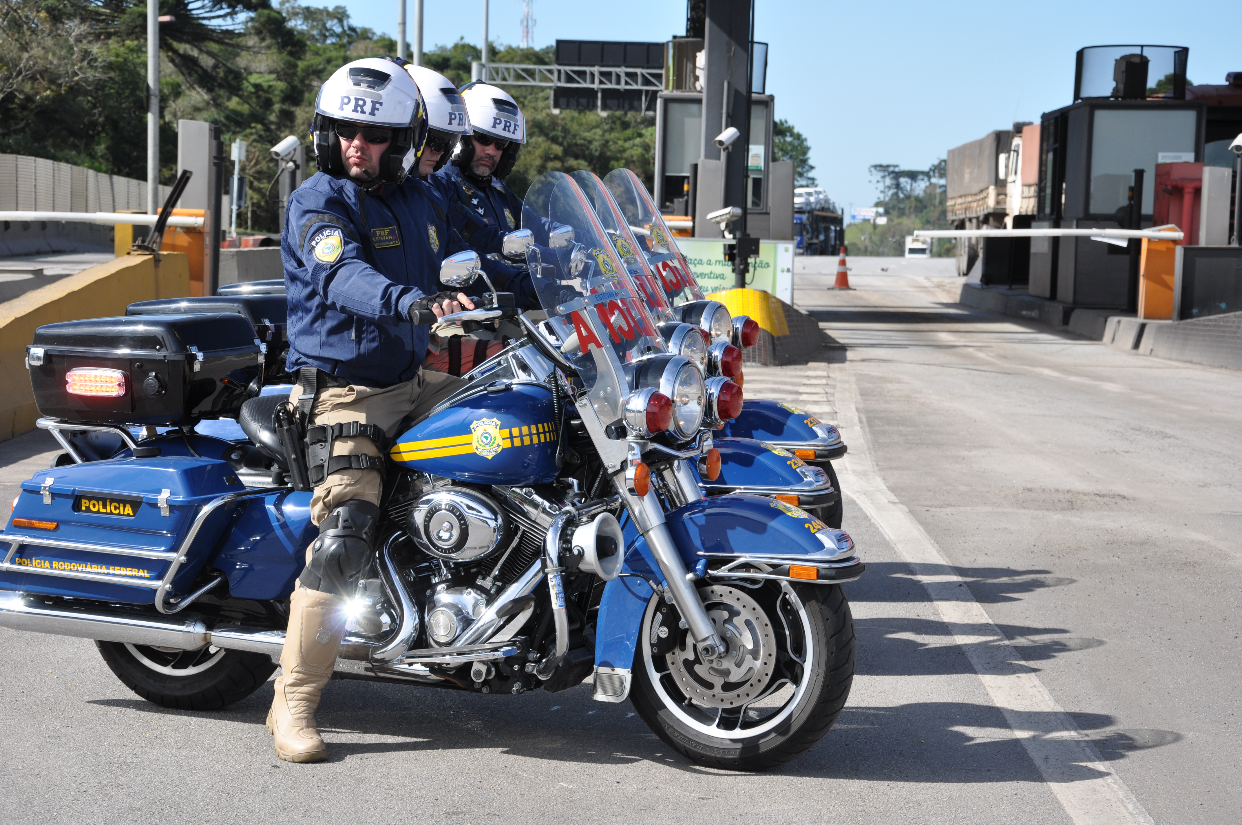 Motociclista PRF – PRF usa câmeras de videomonitoramento para fiscalizar o trânsito e combater crimes. A Polícia Rodoviária Federal está usando câmeras de videomonitoramento para fiscalizar o trânsito e combater crimes. Nas imagens, policiais do Corpo de Motociclistas da PRF no Paraná atuam na BR 277, entre Curitiba e Paranaguá. (29.jun.2015 / Fotos Fernando Oliveira/PRF)